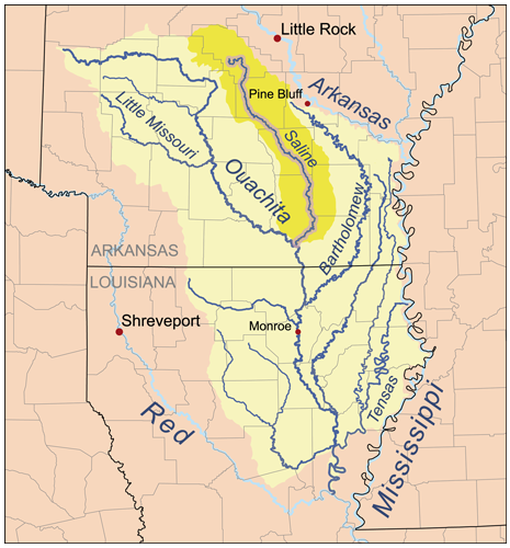 Map of the Saline River highlighted within the Ouachita River watershed. The darker yellow indicates the Saline River watershed.